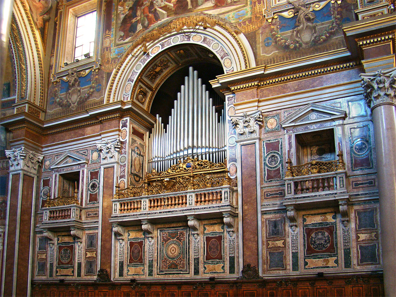 Basilica of St. John Lateran, Vatican, located in Rome, Lazio, Italy. North side of the choir, with the 16th Century organ.